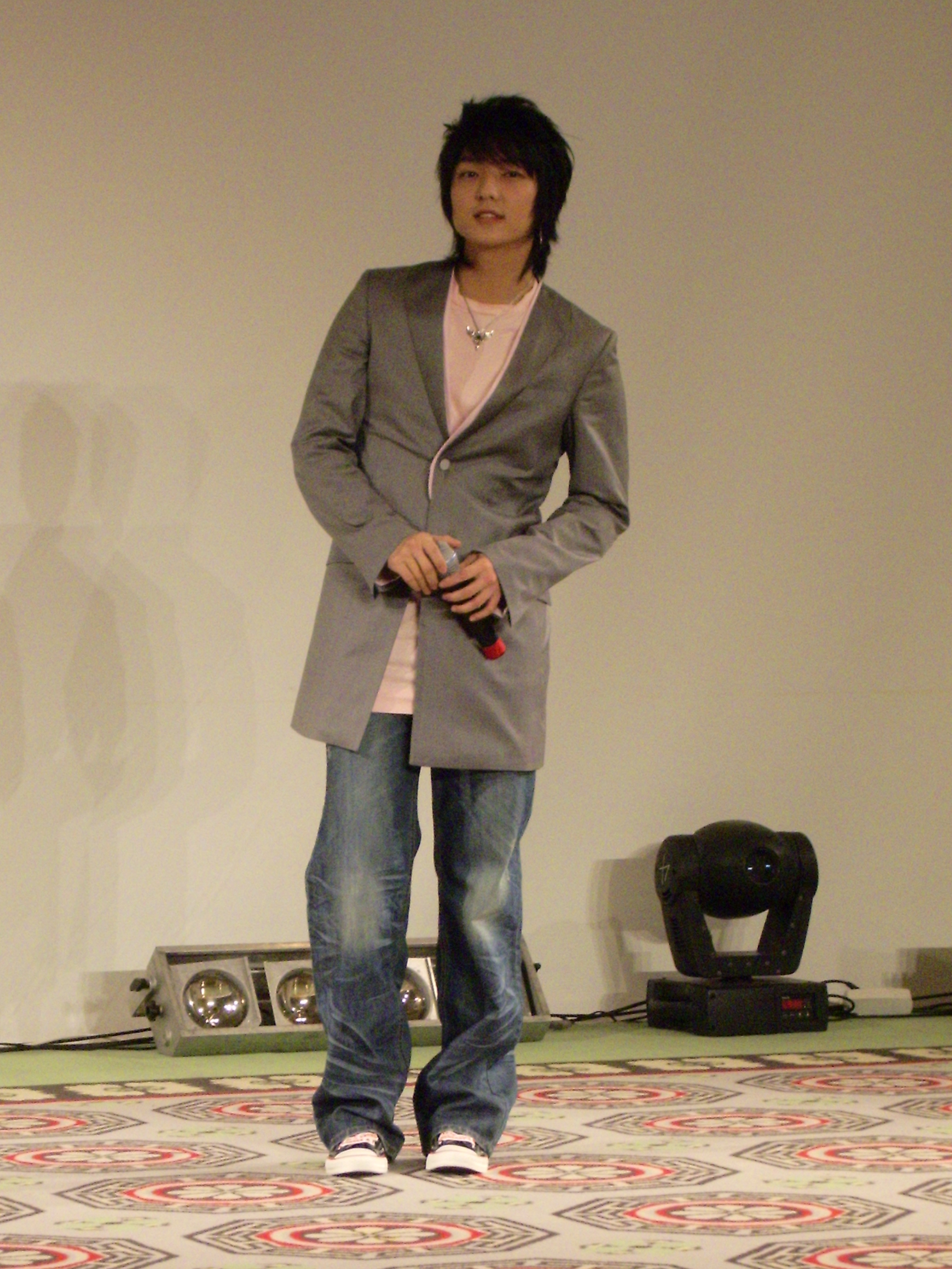 Lee Jun Ki at a King and the Clown fan meeting in the Shilla Hotel, Jeju Island